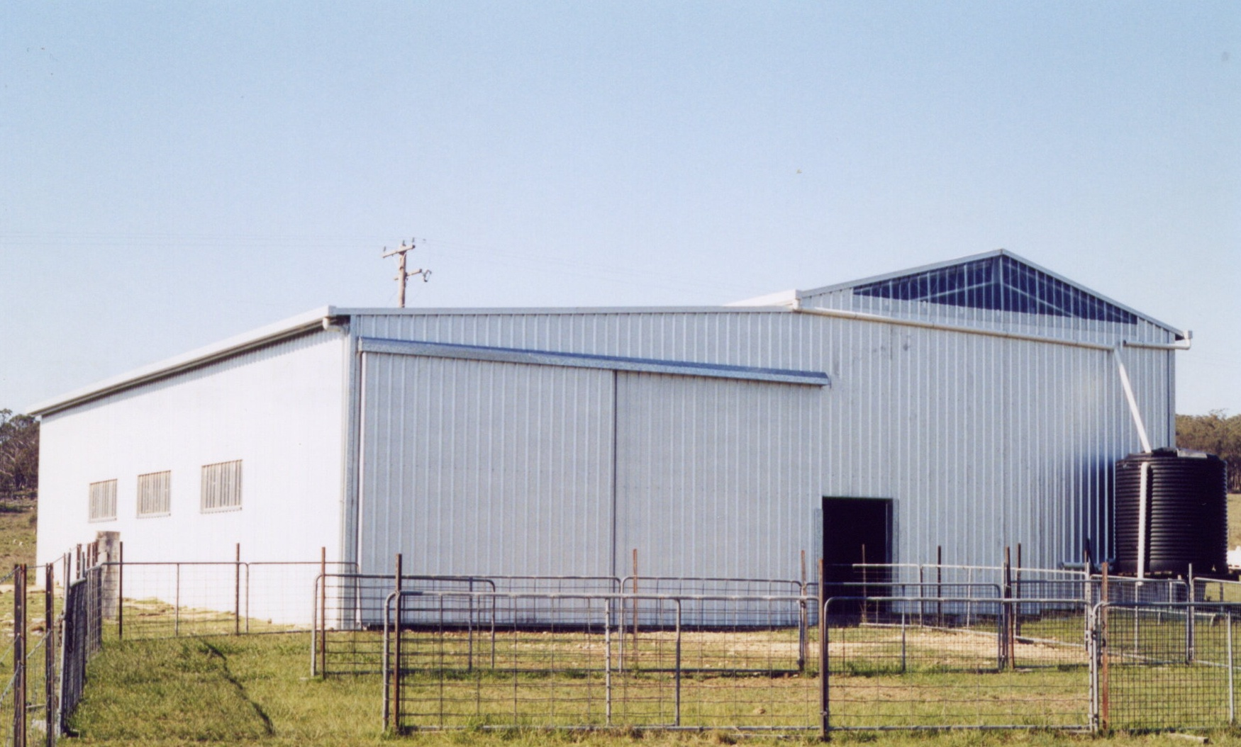 A modern Australian shearing shed, with provision for shedding sheep underneath. Swing or slide gates are installed to help penning up. Catching pens are sloped to assist the shearers handling the sheep.